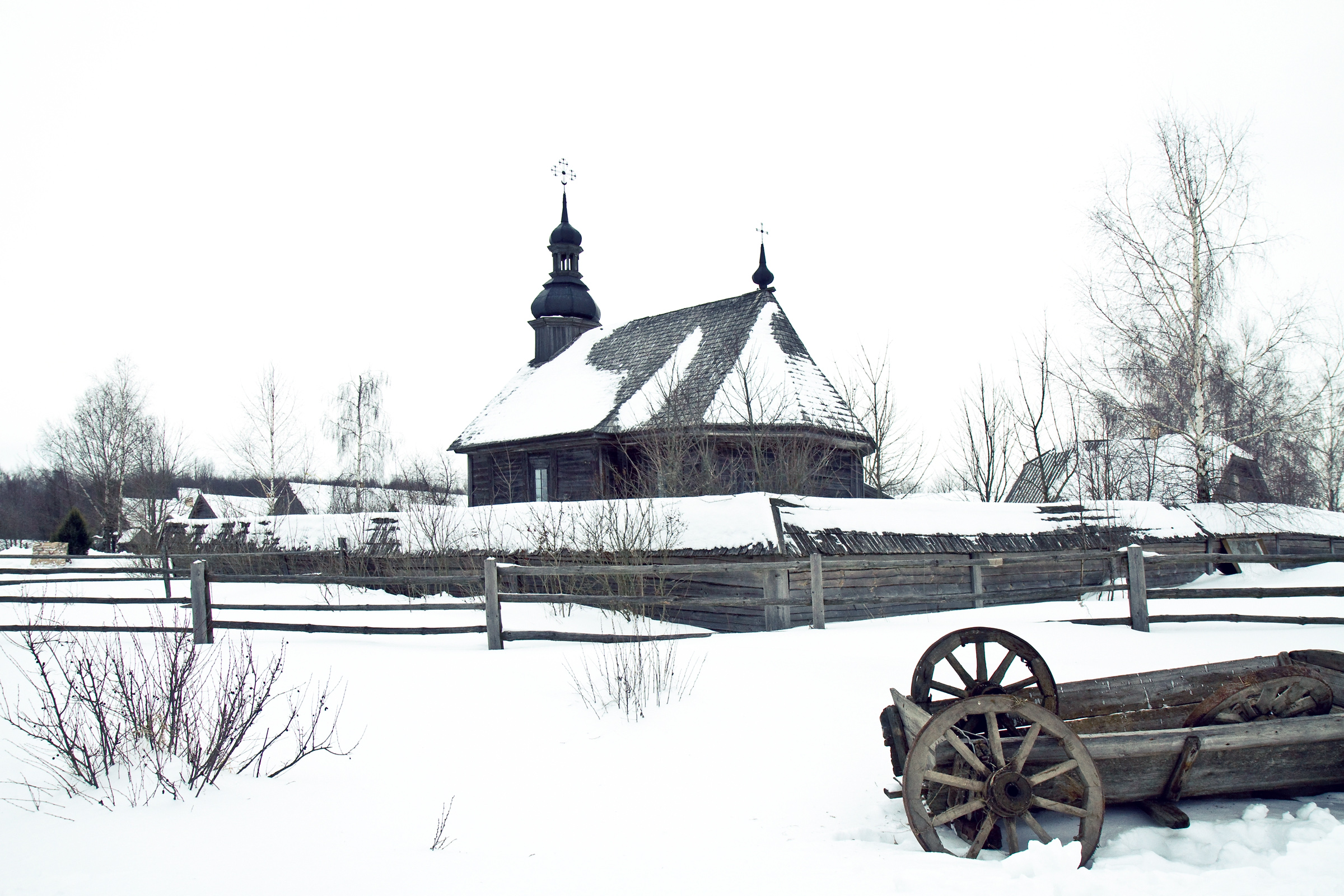 Church of Protection of the Holy Virgin from Lohnavičy, Kleck district. State museum of folk architecture and life, Belarus.